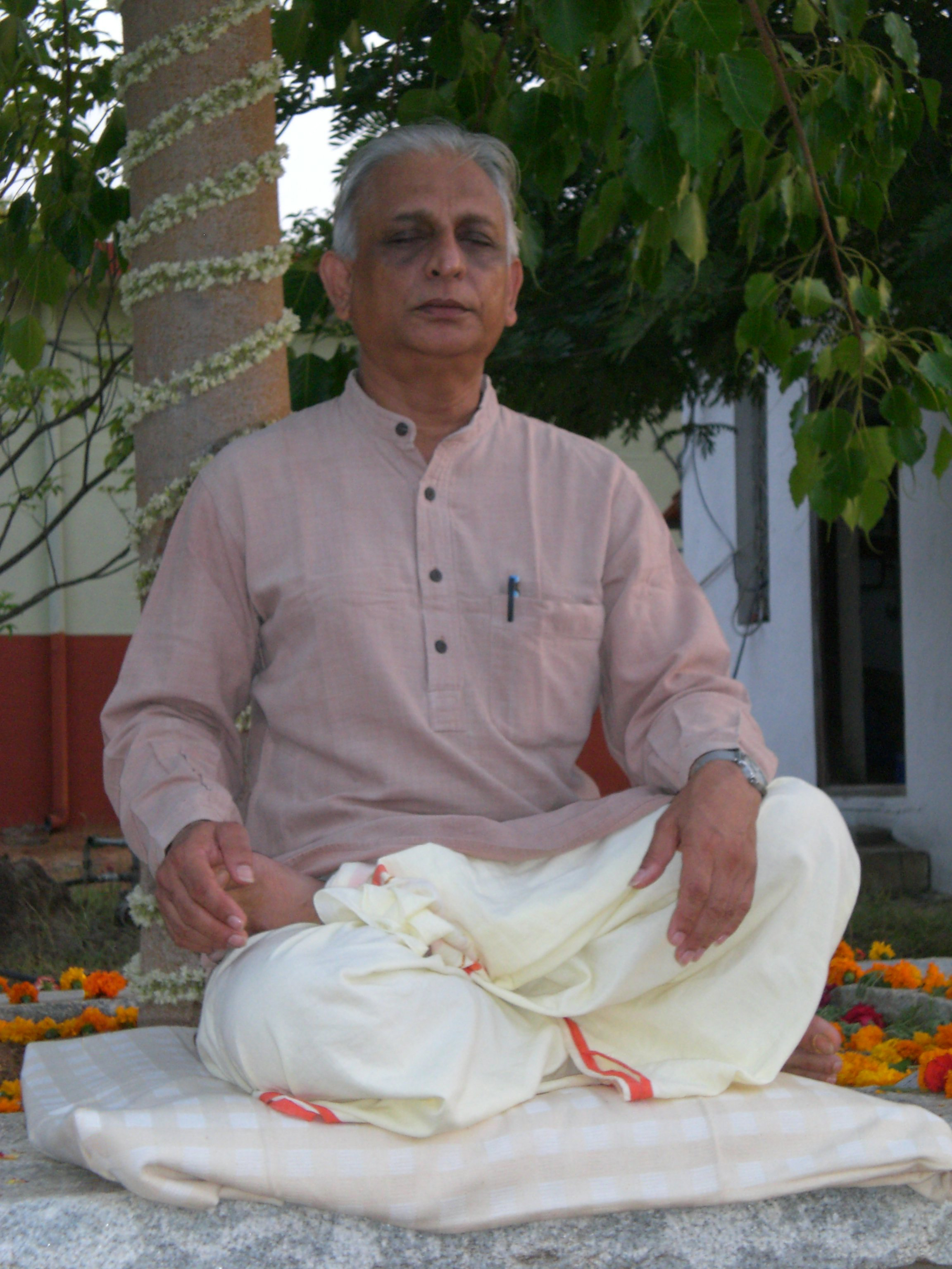 Sri M at Madanpalle on July 18, 2008